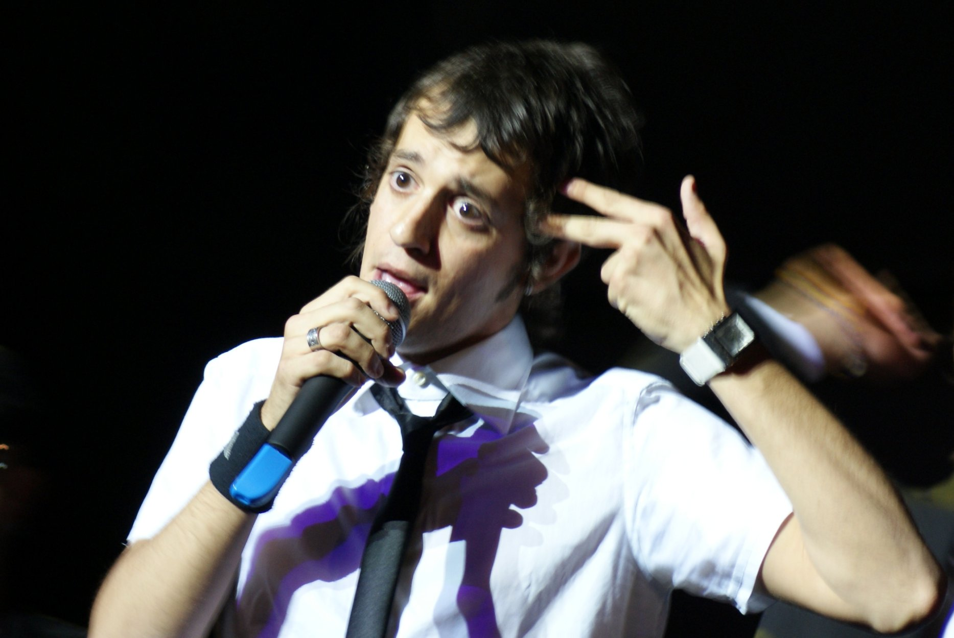 Nicol Della Valle